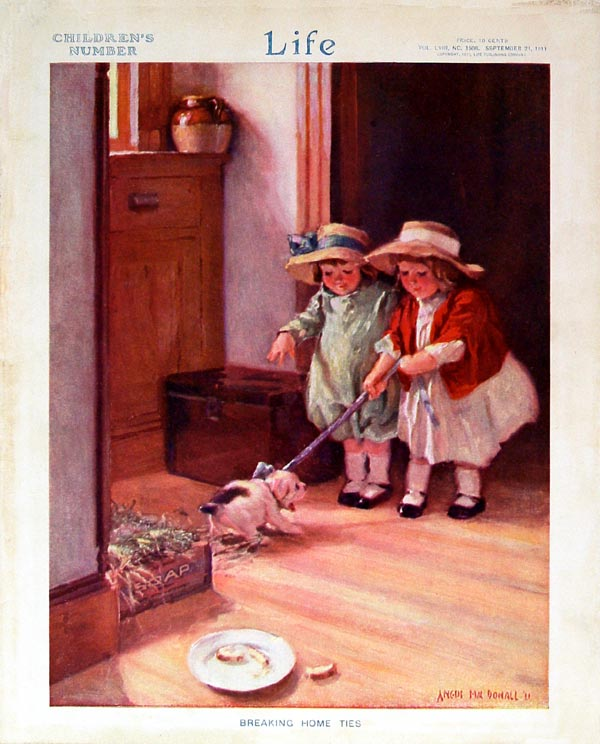 Cover of "Life" Magazine, 1911.